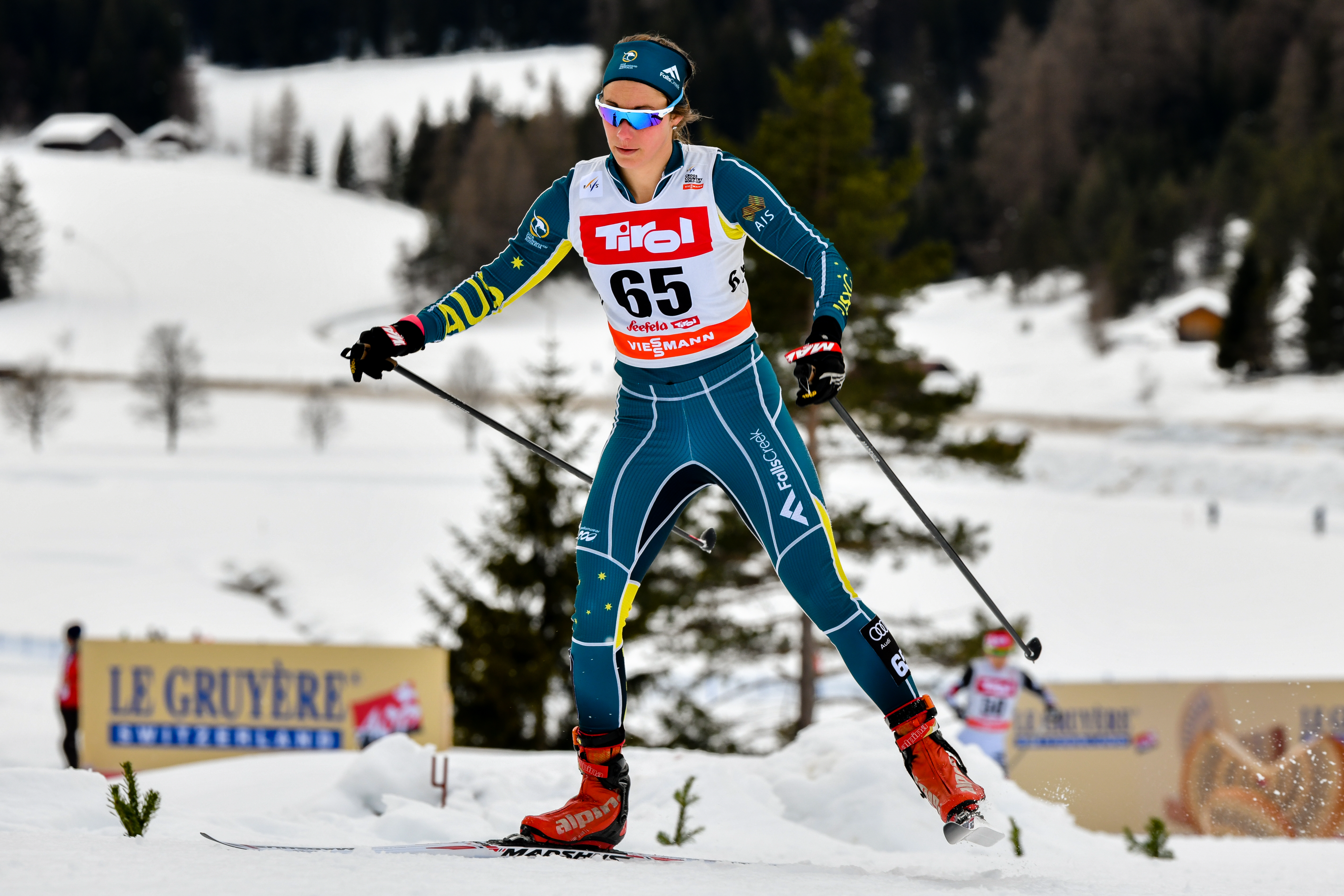 Seefeld-Triple 2018, third day January 28th. Picture shows YEATON Jessica (AUS).